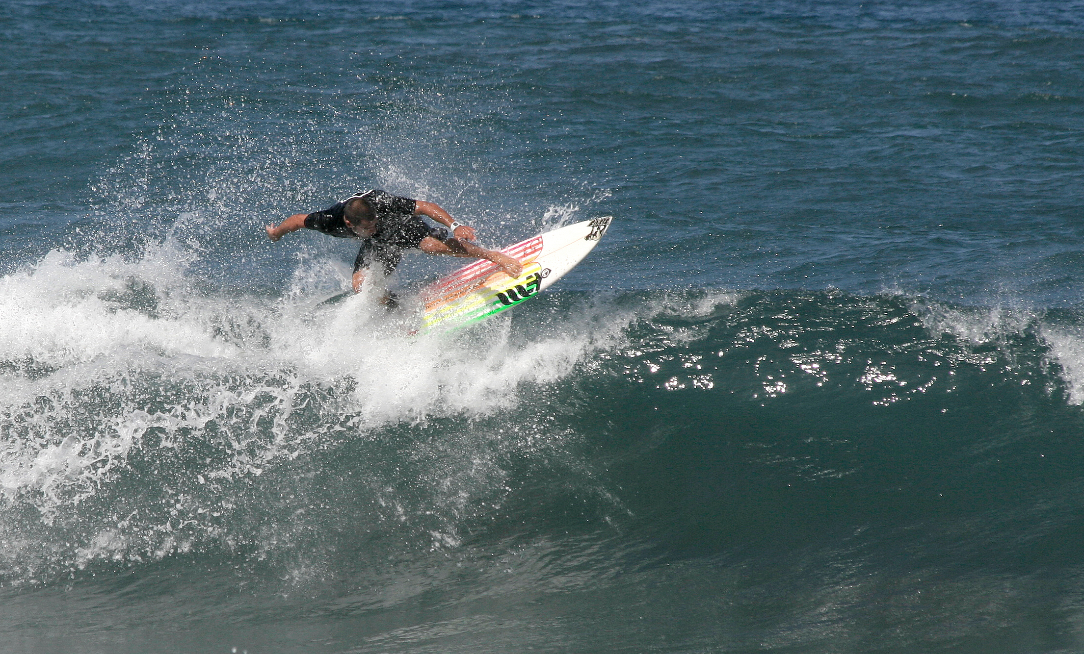 Italian surfer during a competition